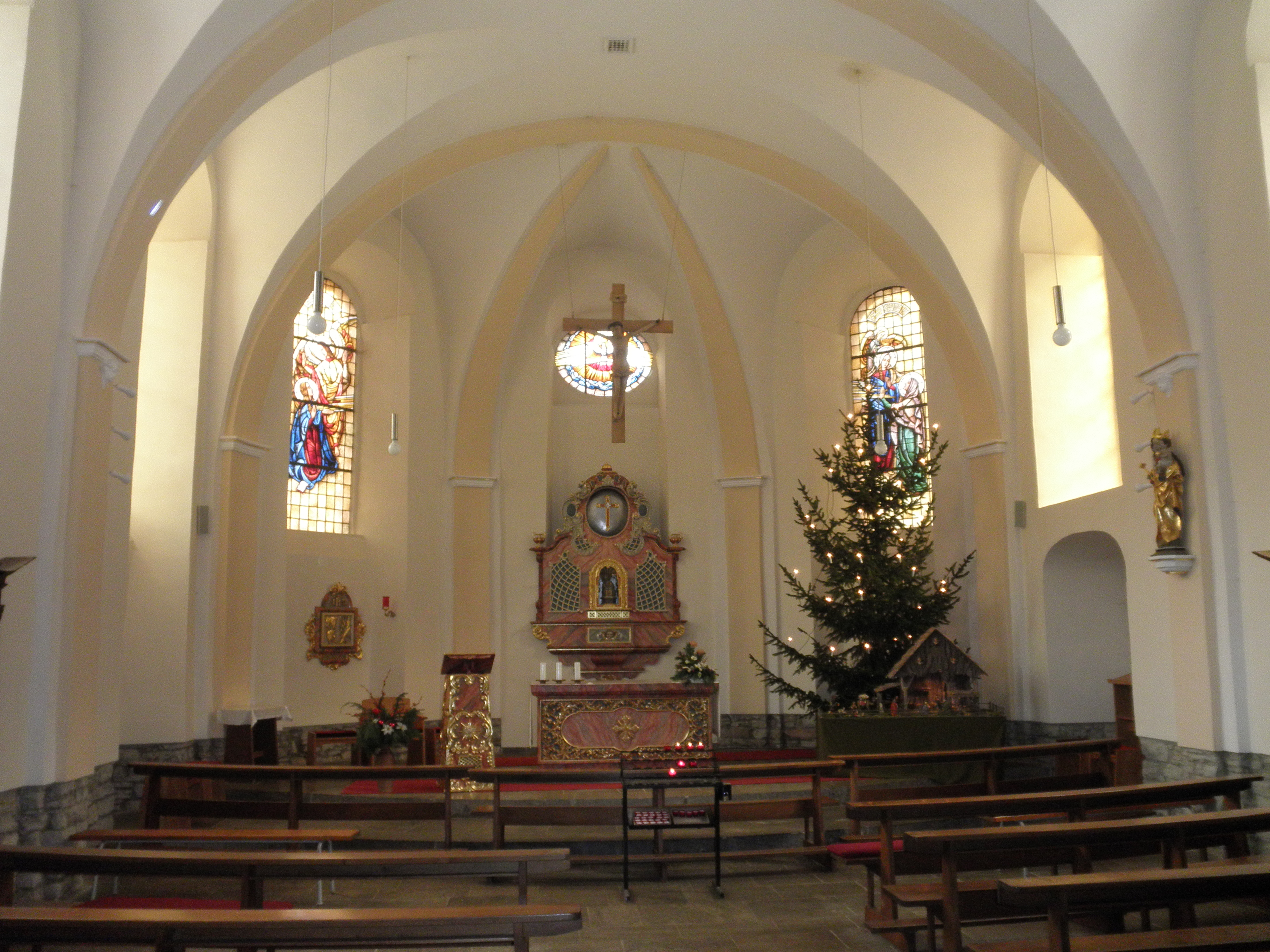 Church Klüschen Hagis (Altar) in Eichsfeld in Thuringia